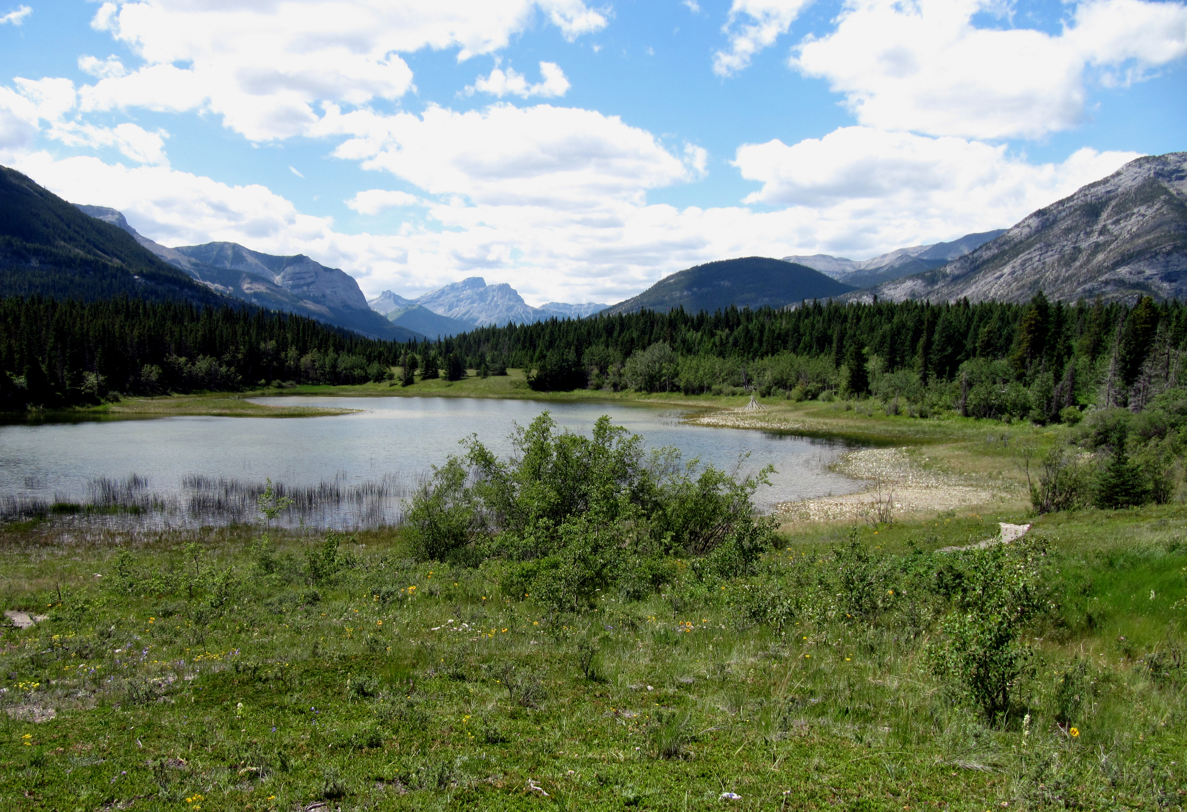 The Canadian Rockies seen from Middle Lake, Alberta